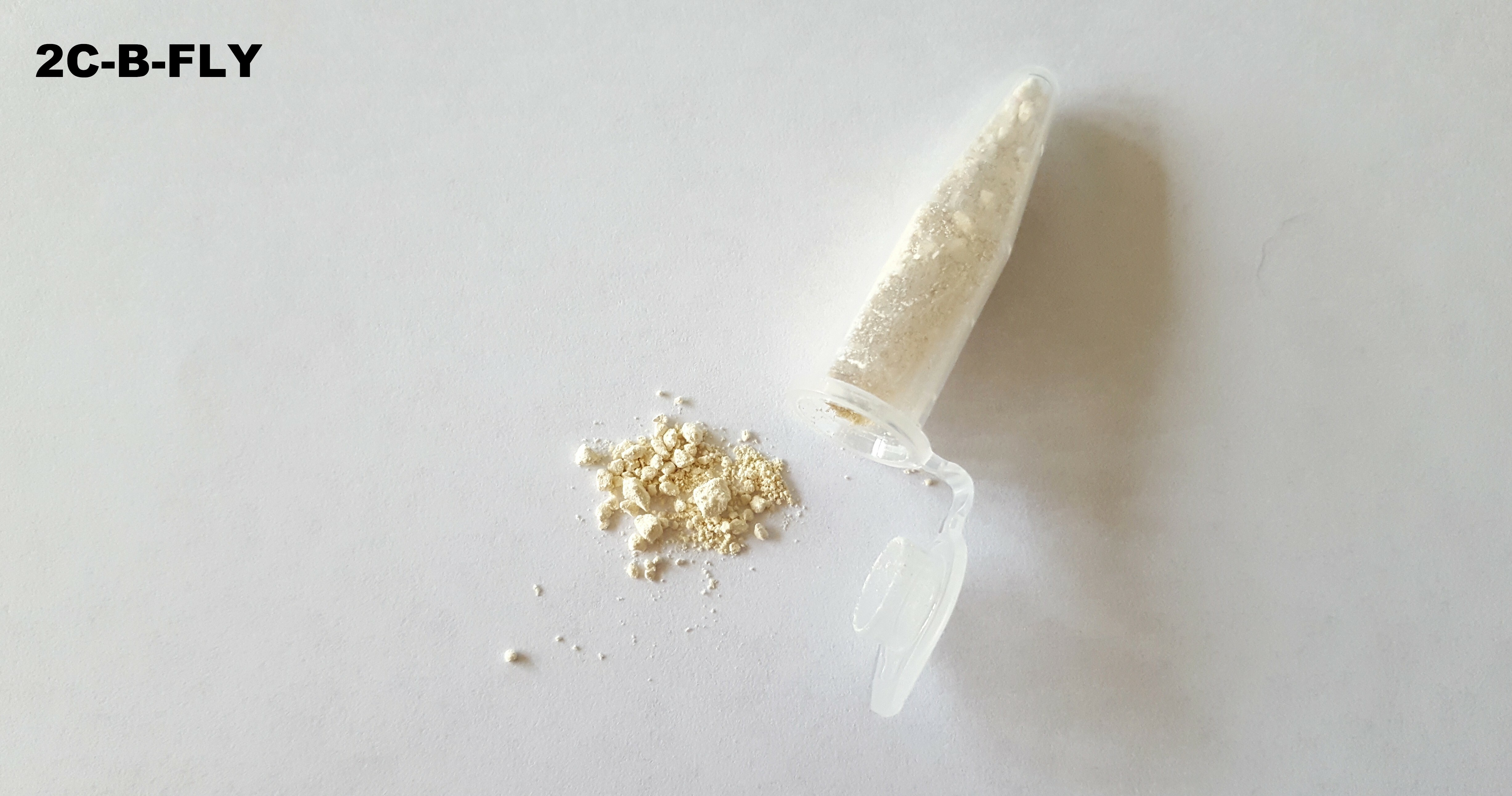 First synthesised in 1996, 2C-B-FLY is a psychedelic phenethylamine of the 2C family.